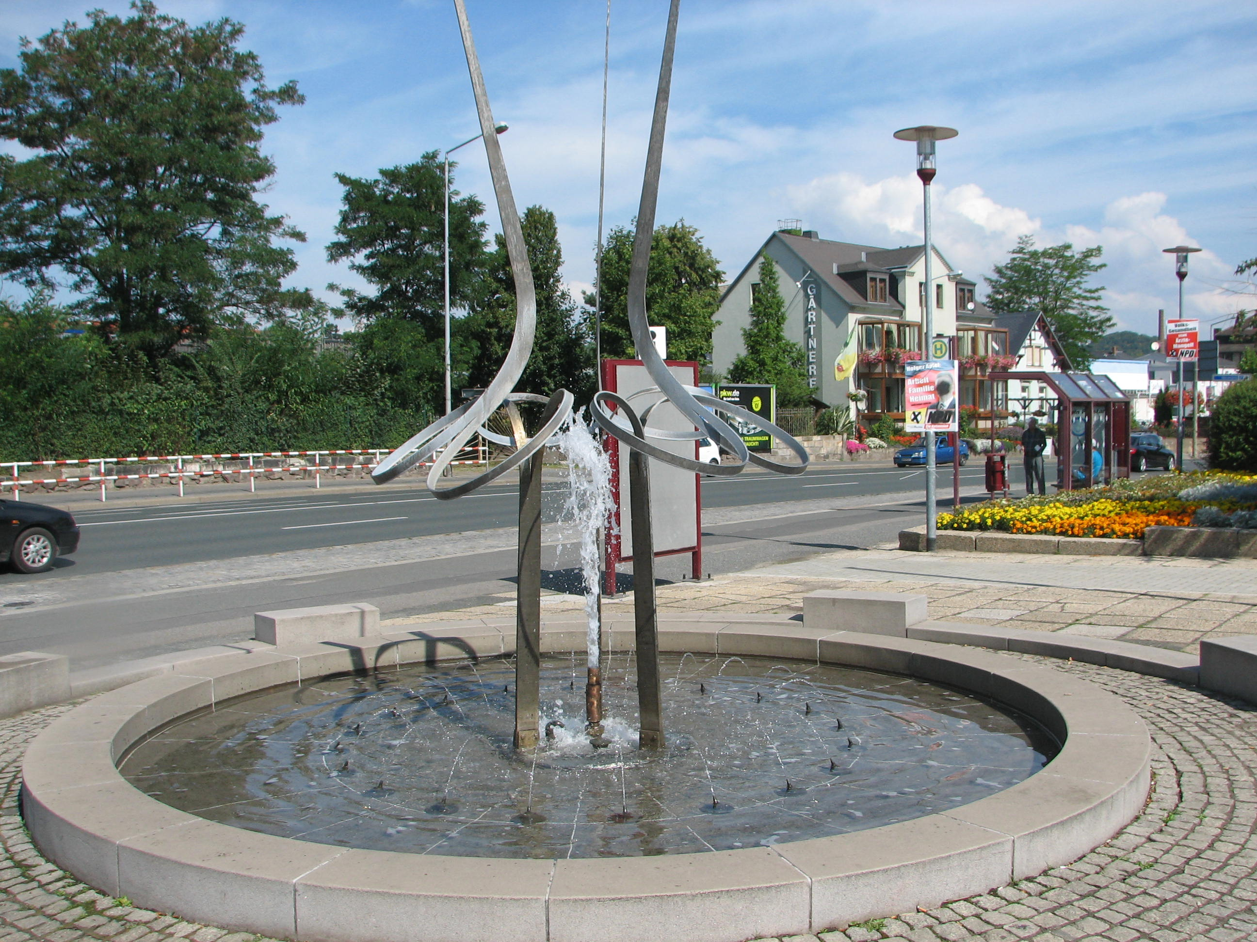 Freital (Saxony), Neumarkt, Brunnen